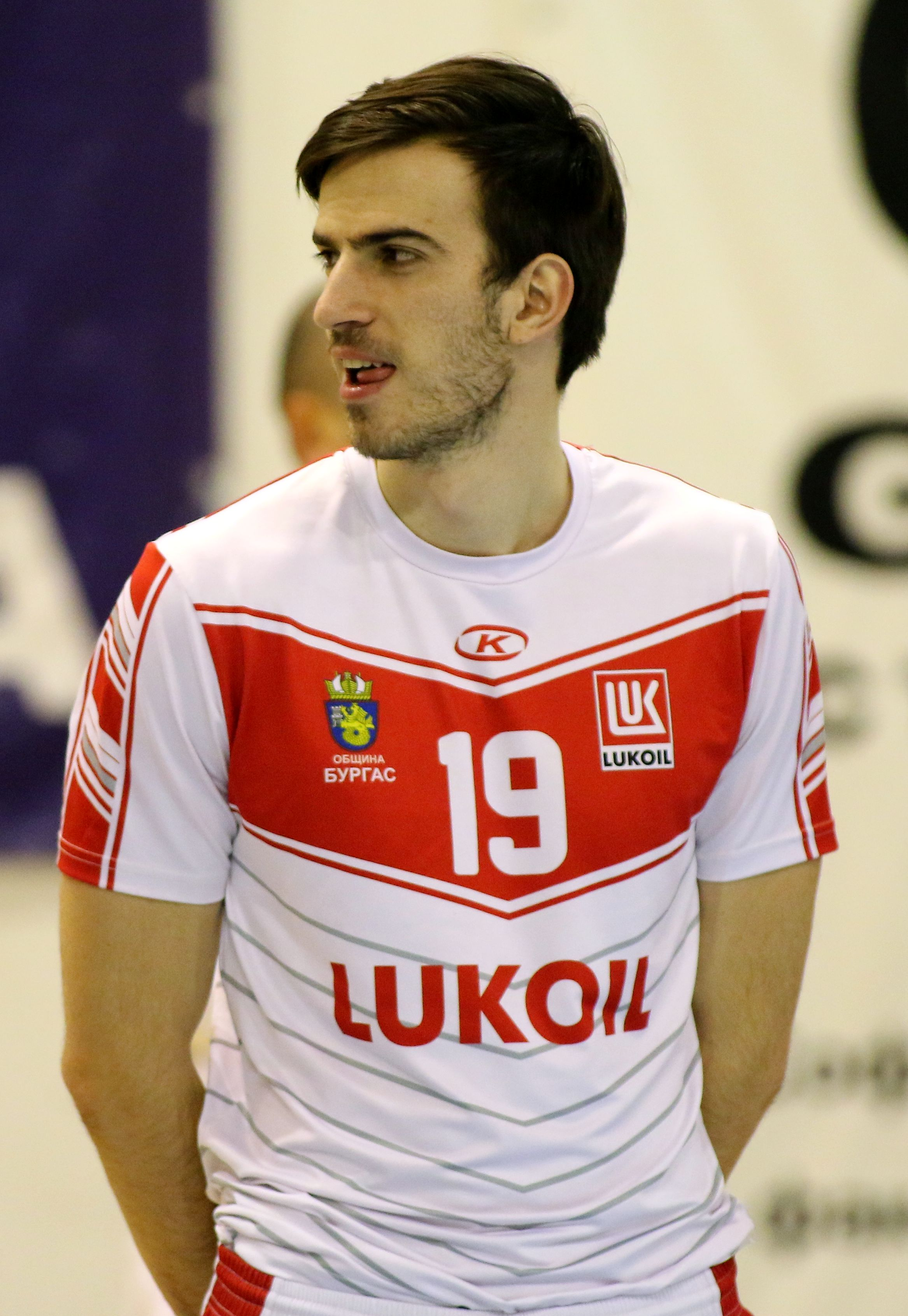 Nikolay Kurtev - Bulgarian volleyball player, competitor of Neftochimik 201 Burgas